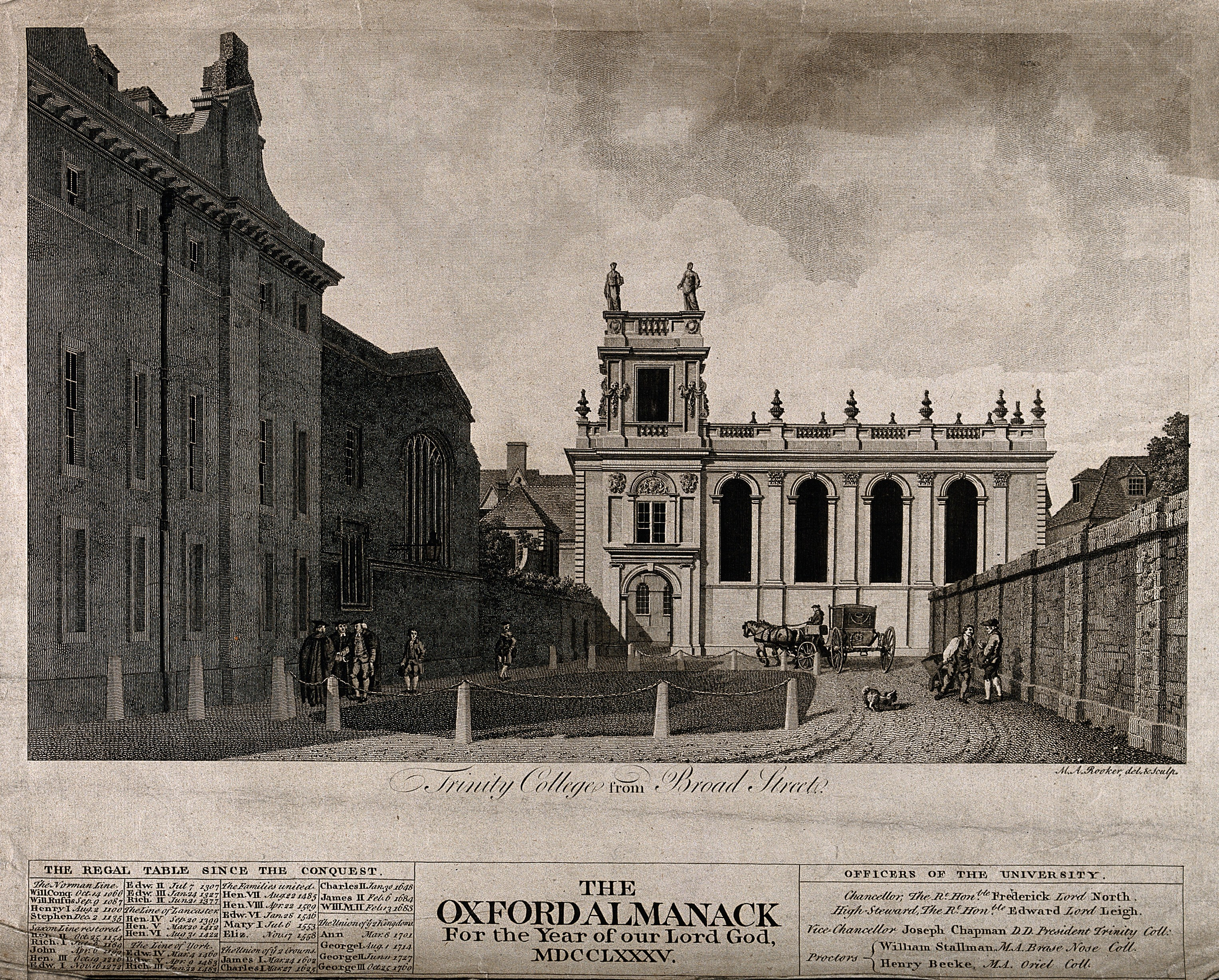 Trinity College, Oxford: from Broad Street. Line engraving by M.A. Rooker after himself, 1785. Iconographic Collections Keywords: Trinity College (Oxford); University of Oxford; Joseph Chapman; Henry Beeke; Edward Leigh; Frederick North; Michael Angelo Rooker; William Stallman